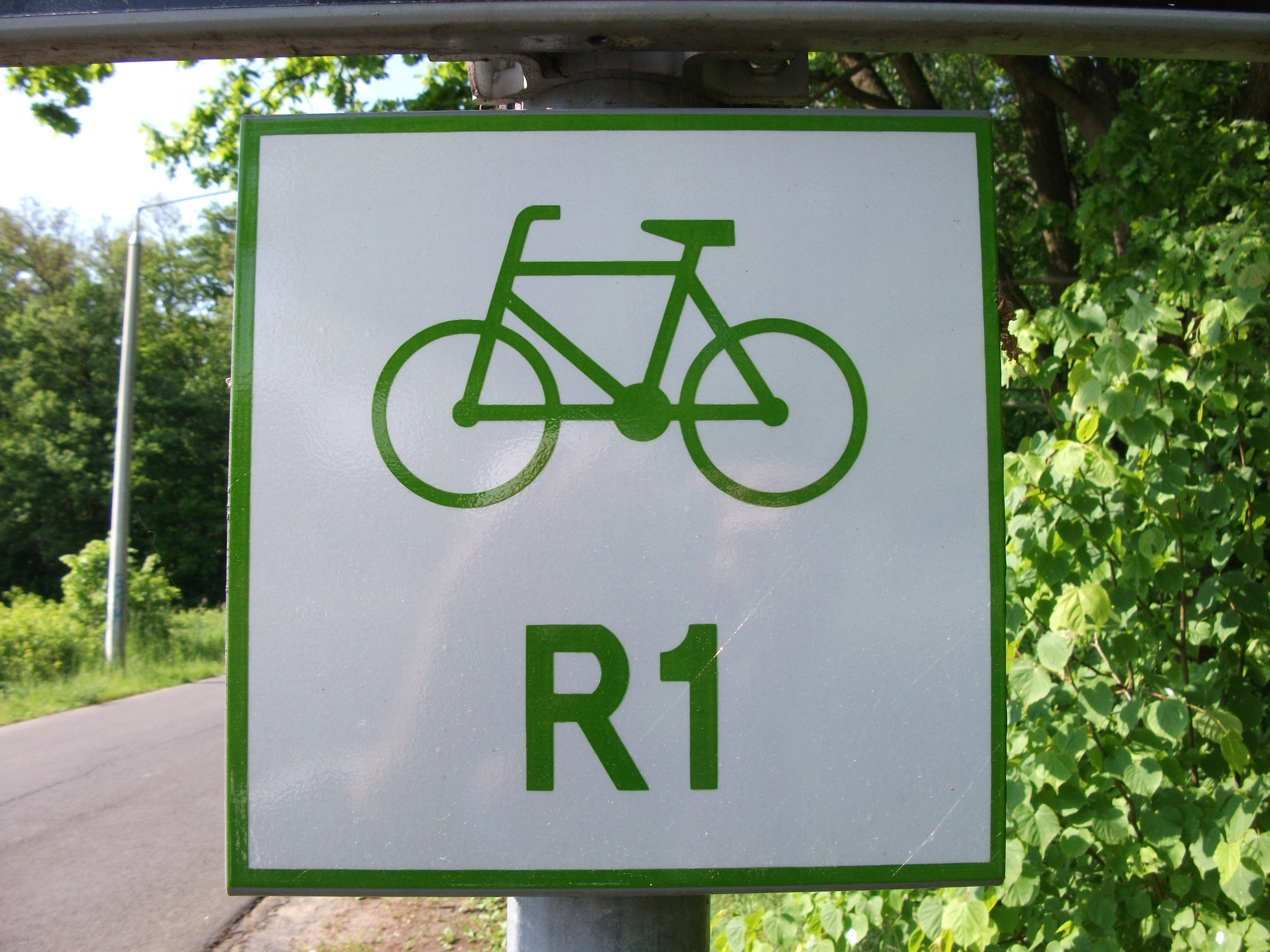 International cycling route Euroroute R1